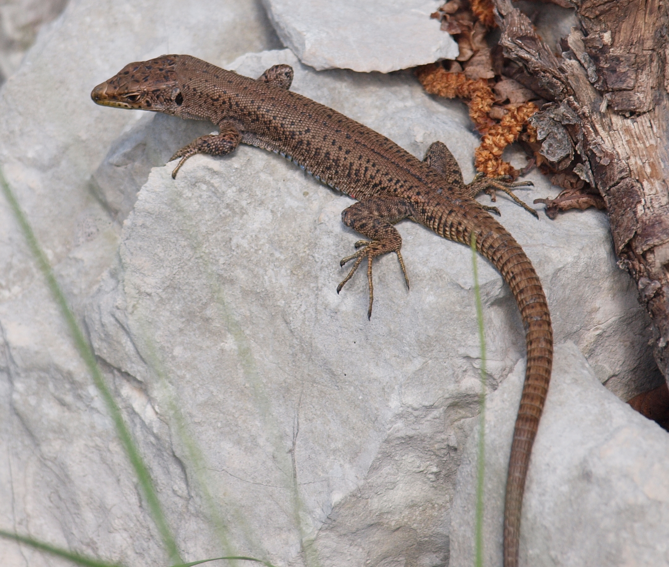 Mosor lizard